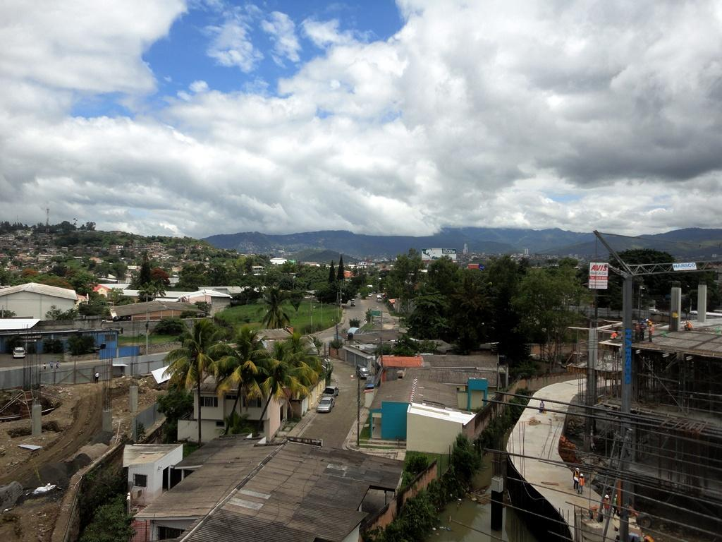 Looking northeast from Colonia 15 de septiembre in Comayagüela at the construction site of City Mall in Tegucigalpa, M.D.C, capital of Honduras.